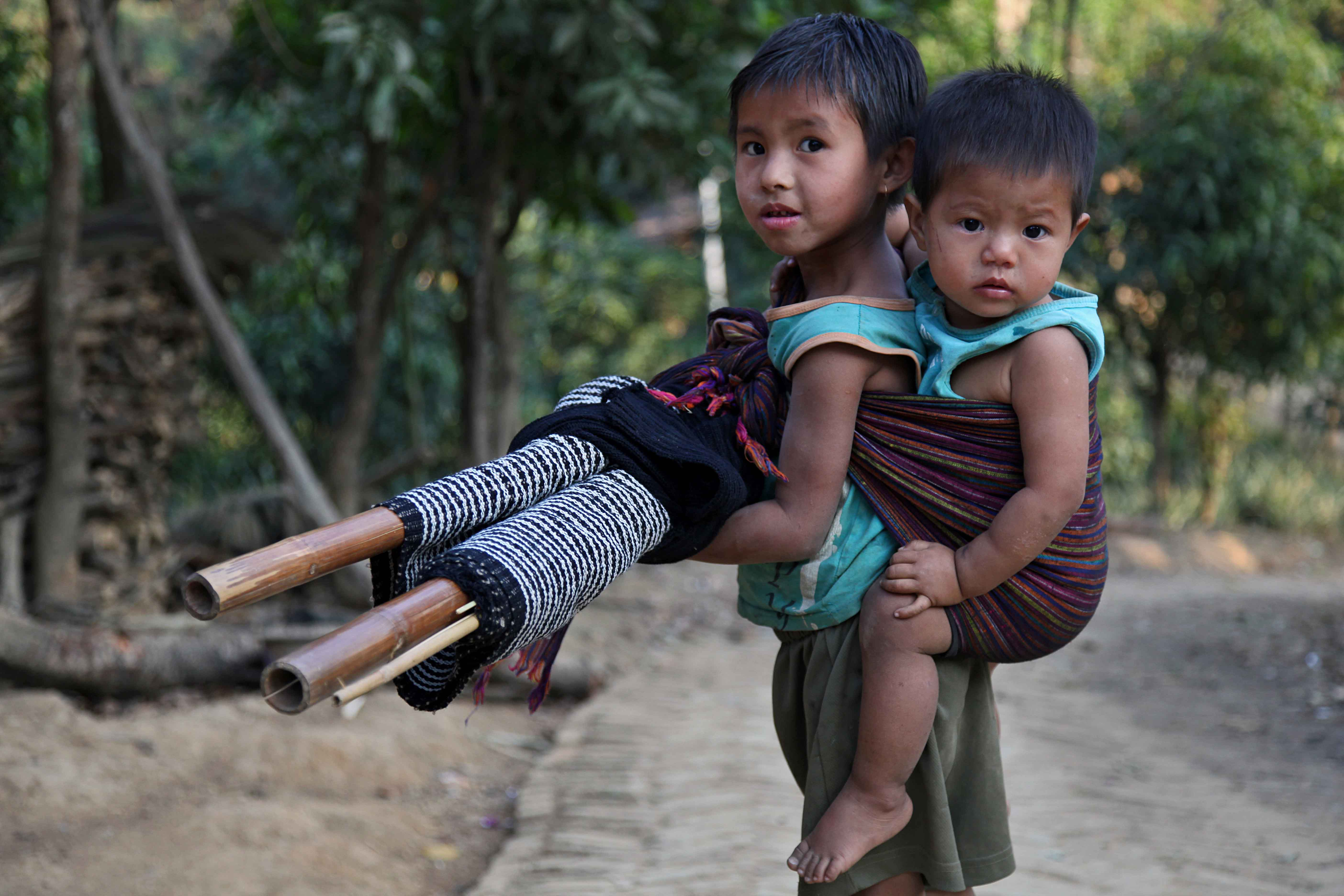 A tribal kid tied her little sister in her back. Farukpara, Bandarban, Bangladesh.